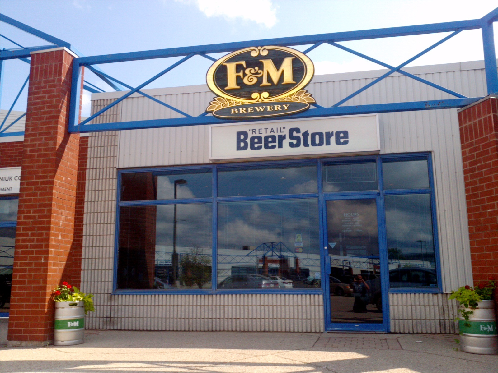 Front of F&M Brewery